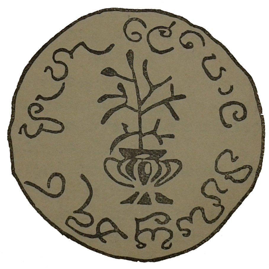 Seal of Ehelepola Maha Nilame (1773 - 1829).